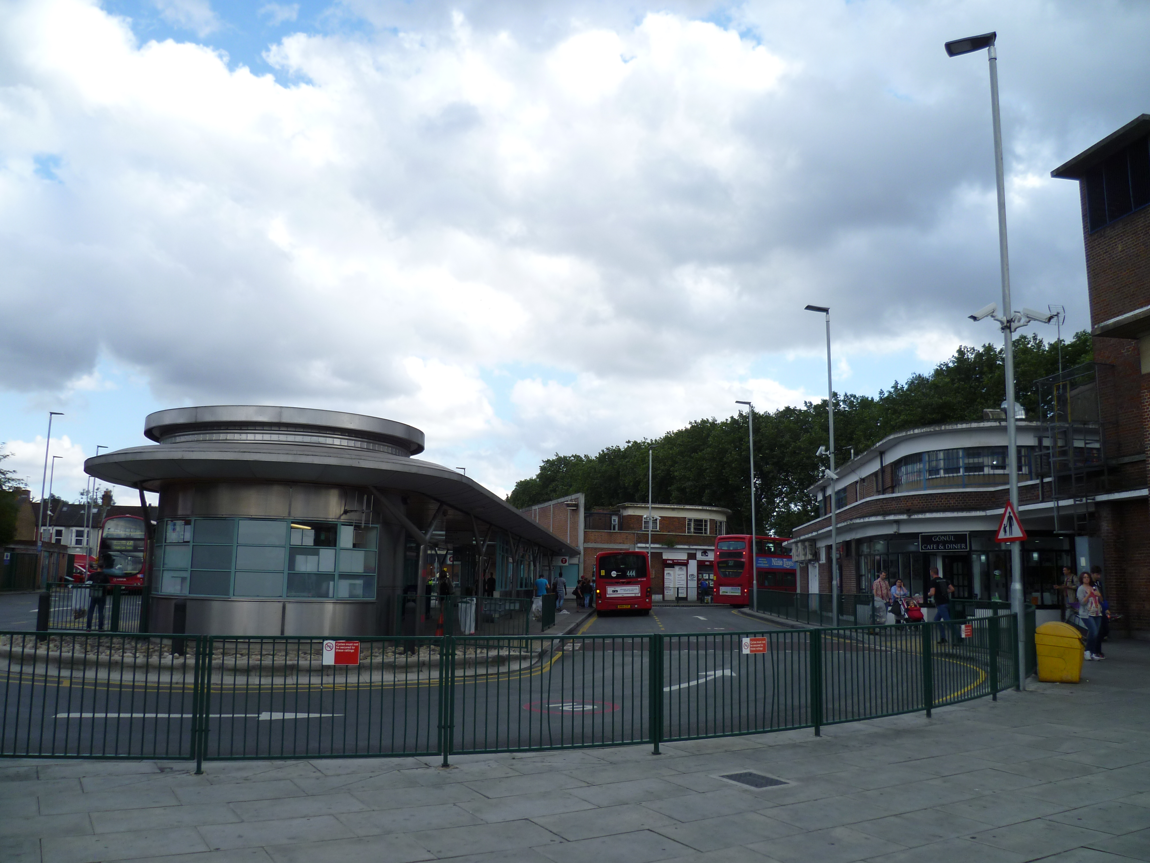 Turnpike Lane